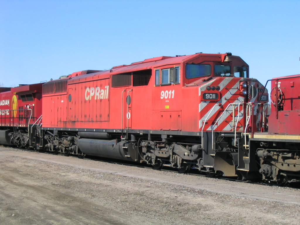 CP 9011 on Train 119-25 in Chalk River, ON Photo taken on March 25, 2005 by Brendan Frisina Used with permission from author